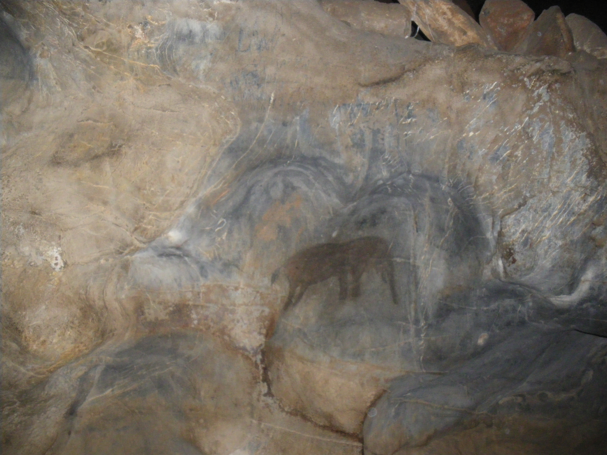 A painting in the Cango Caves, Western Cape Province, South Africa.